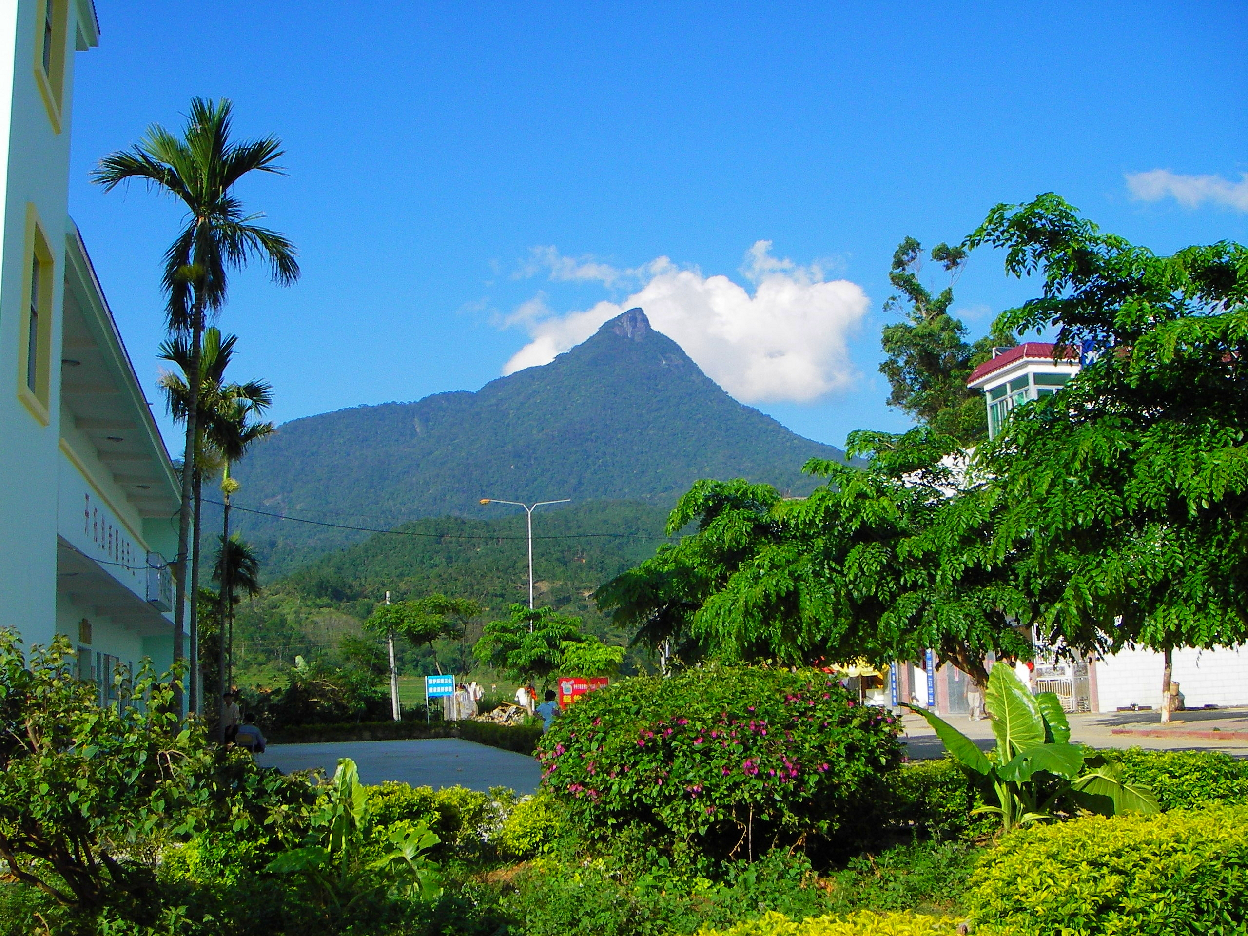 Wuzhi Shan, or Five Finger Mountain, located in Hainan province, China. It is the highest peak in the province.